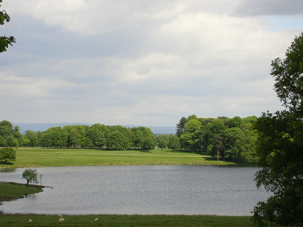 Photograph of Tatton Mere, Tatton Park.